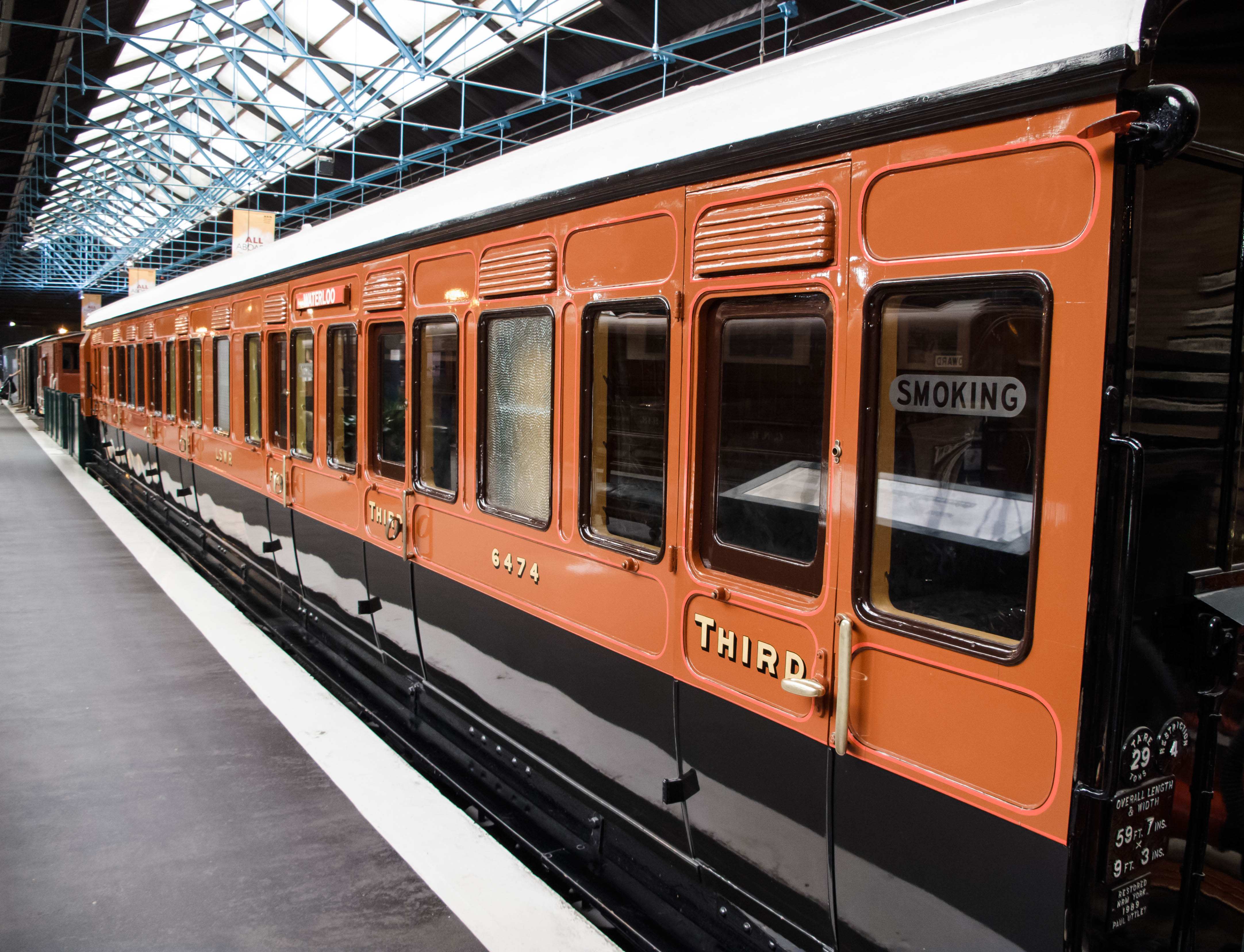 Lavatory tri-composite